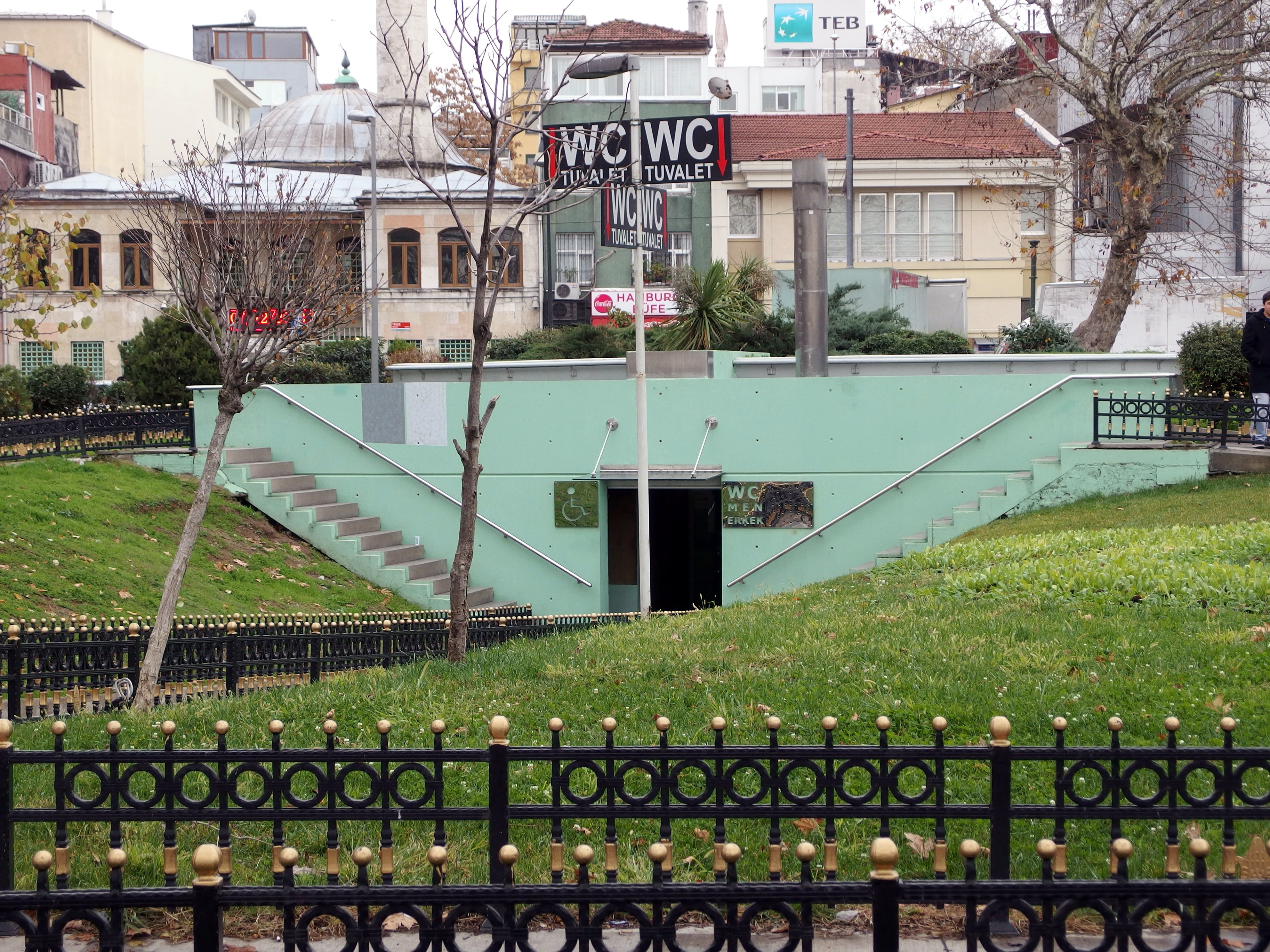 2013-12-07 in Istanbul.